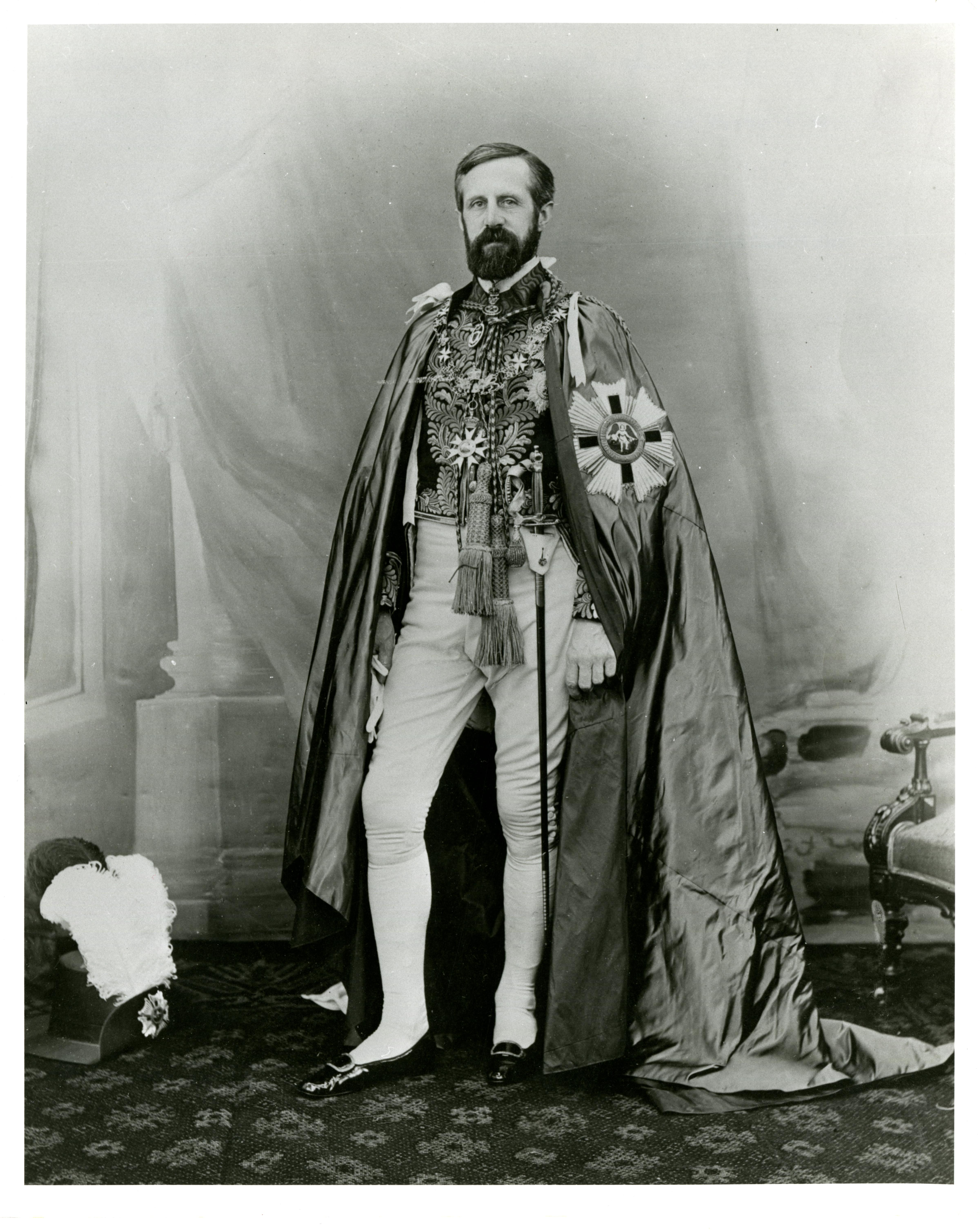 Reproduction of a photograph of John Campbell Hamilton Gordon , 7th Earl and 1st Marquess of Aberdeen and Temair. Governor-General of Canada 1893-1898. Original at Library and Archives Canada .